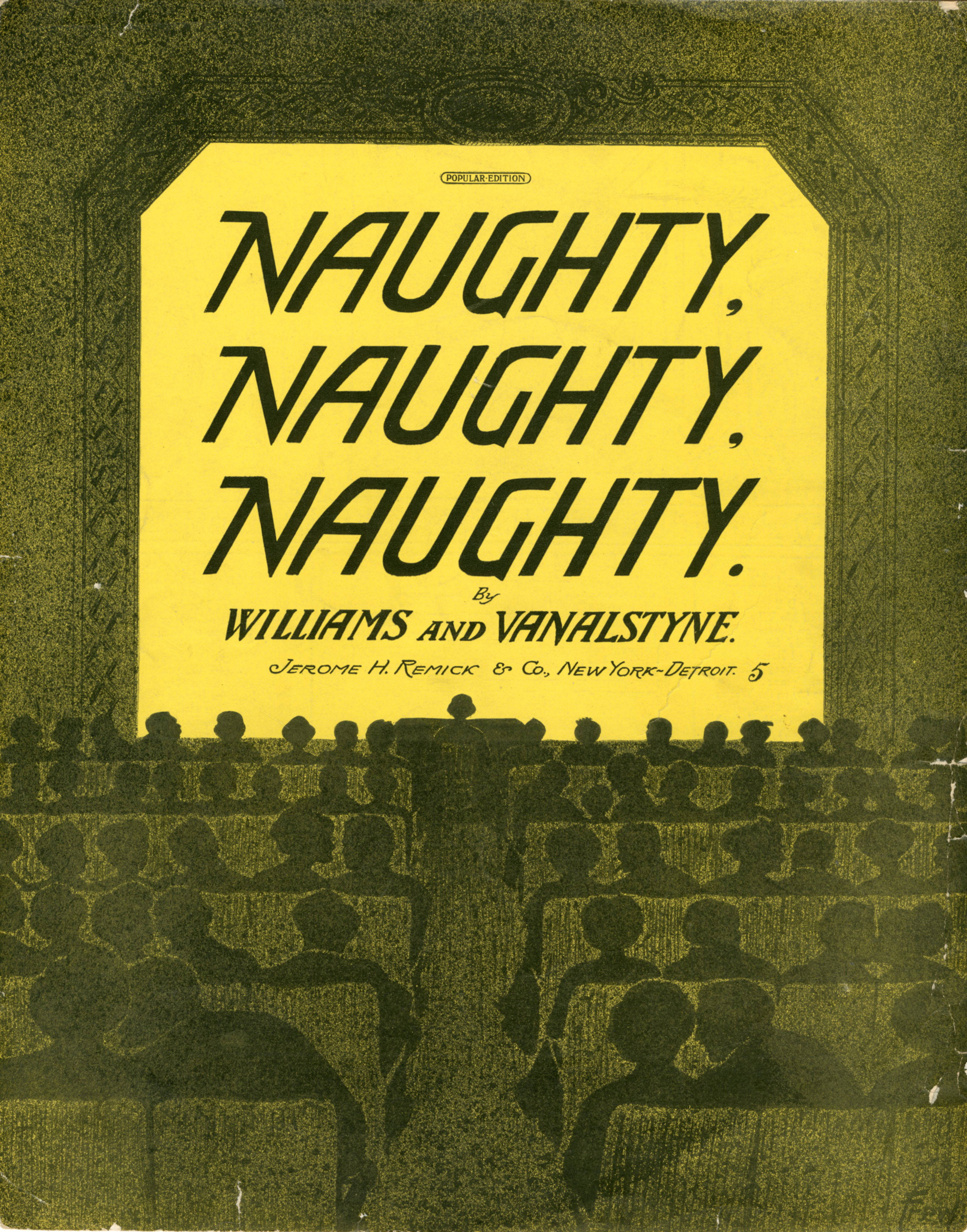 Sheet music cover: "Naughty, Naughty, Naughty" 1 vocal score (5 p.) ; 35 cm. Illustrated cover / Frew.